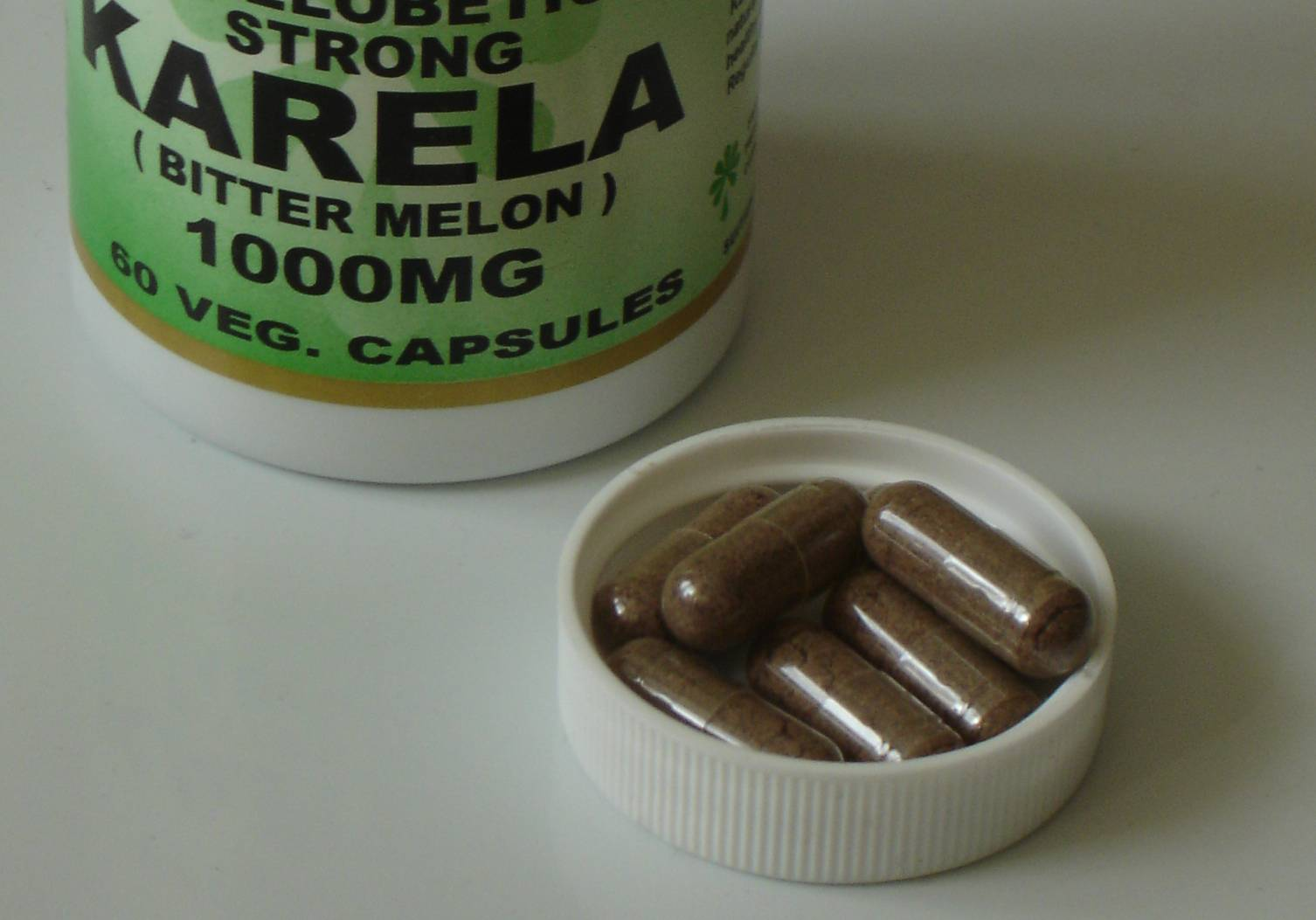 Close crop of image showing Karela (bitter melon) extracts in capsule form and sold as a health supplement, specifically to those with Type II diabetes.Crop of 1 of 4 images, a different crop was uploaded directly to en wiki showing more of the container, however this included company logos, and after having had to explain myself to a bot decided to create this version which should have less problems.